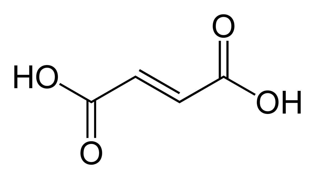 Skeletal formula of fumaric acid